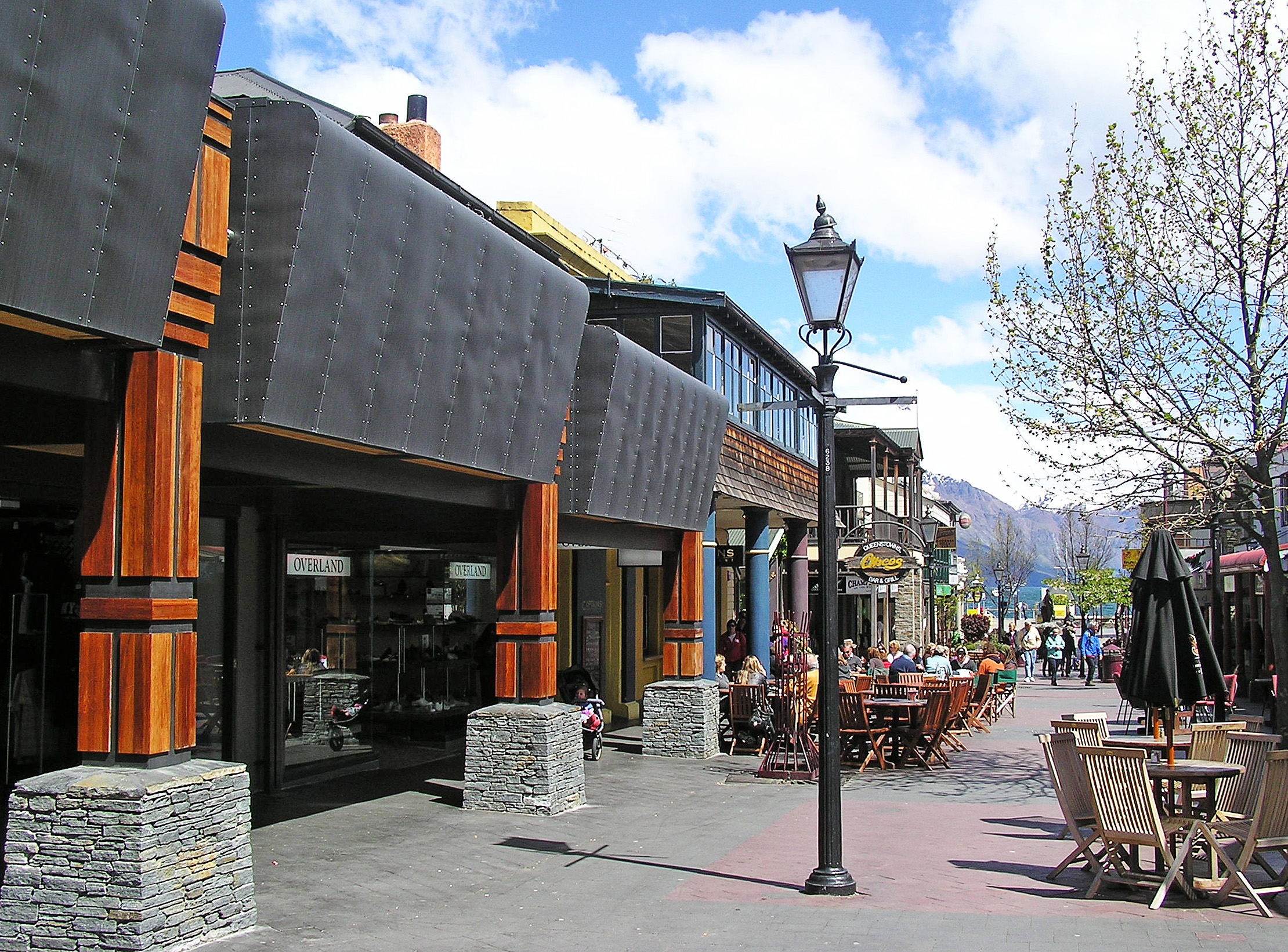 Queenstown Mall, New Zealand